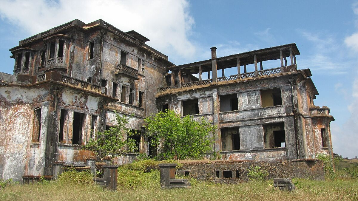 Grand Palace, Bokor Hill Station Dec. 2009